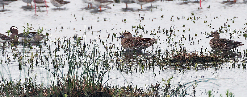 Garganeyen:Anas querquedula at/ near Hodal in Faridabad District of Haryana, India.